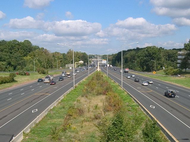 Taken by Rhobite 10/1/2004 From the exit 37 overpass of Interstate 91 in Connecticut.